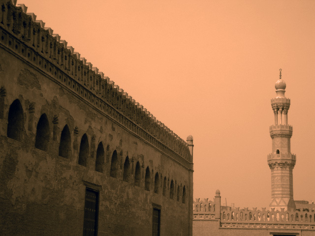 Fatimid Cairo, Egypt